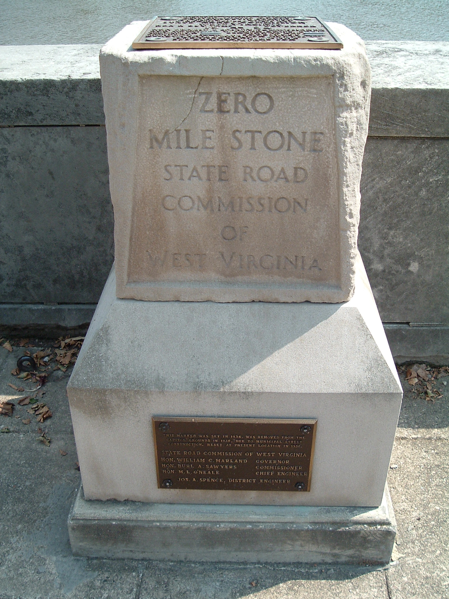 Zero Milestone adjacent to West Virginia State Capitol in Charleston, WV. Self Made Photo.